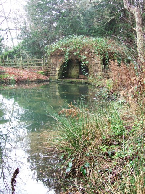 Grotto, Clumber Park. With the nearby 652173, this garden feature, at the head of an inlet from the lake, helped control the water supply for Clumber.